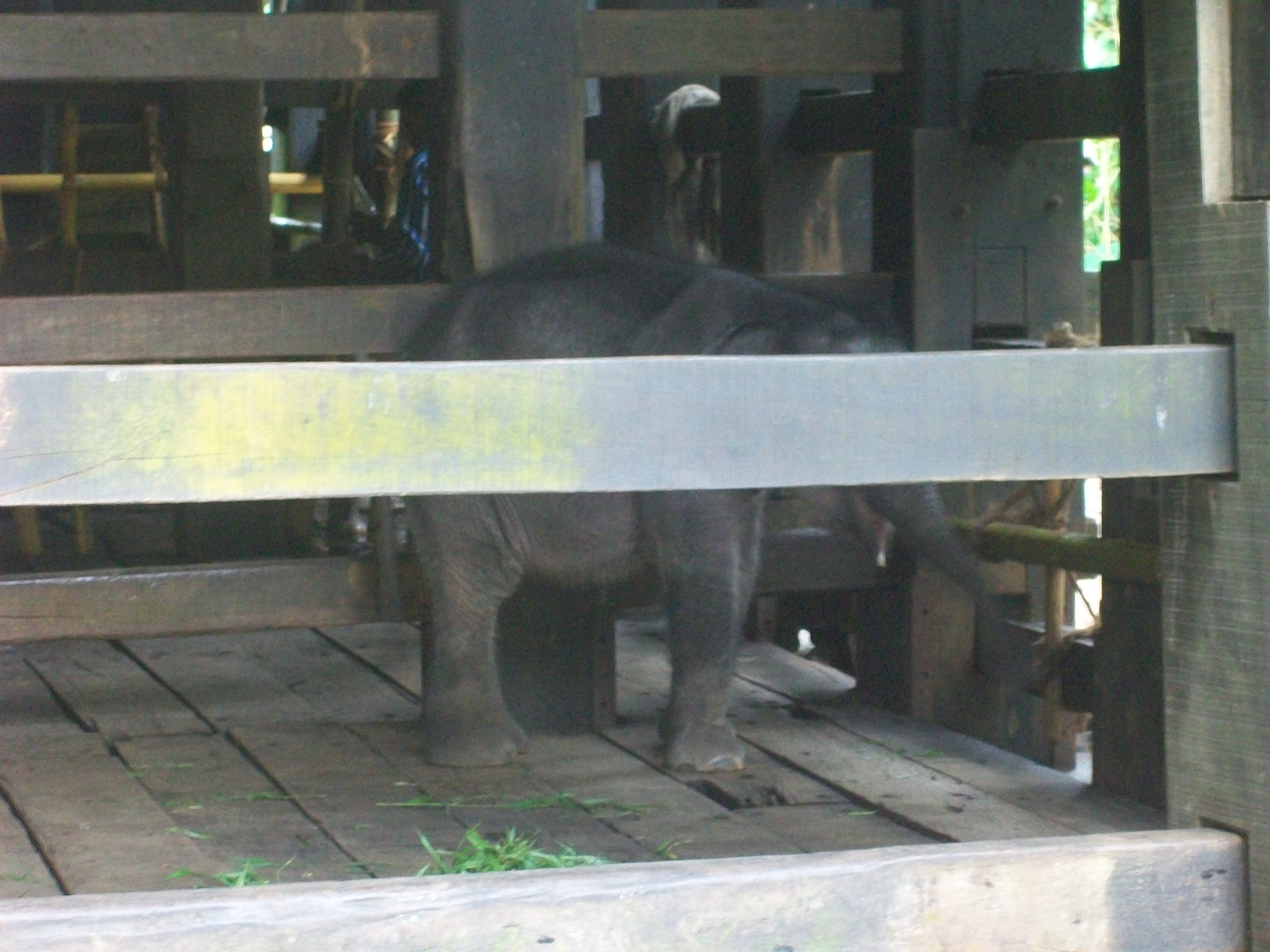 KODANAD ELEPHANT RESCUE CENTRE ON THE BANKS OF RIVER PERIYAR IN ERNAKULAM DISTRICT,KERALA,INDIA.